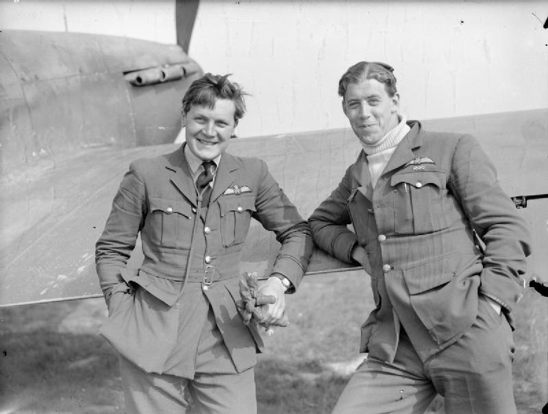 Royal Air Force- France, 1939-1940. Flying Officers N "Fanny" Orton and E J "Cobber" Kain of No. 73 Squadron RAF, standing by a Hawker Hurricane Mark I, between sorties, at Reims-Champagne. Orton left France with at least fifteen victories and Kain with seventeen.